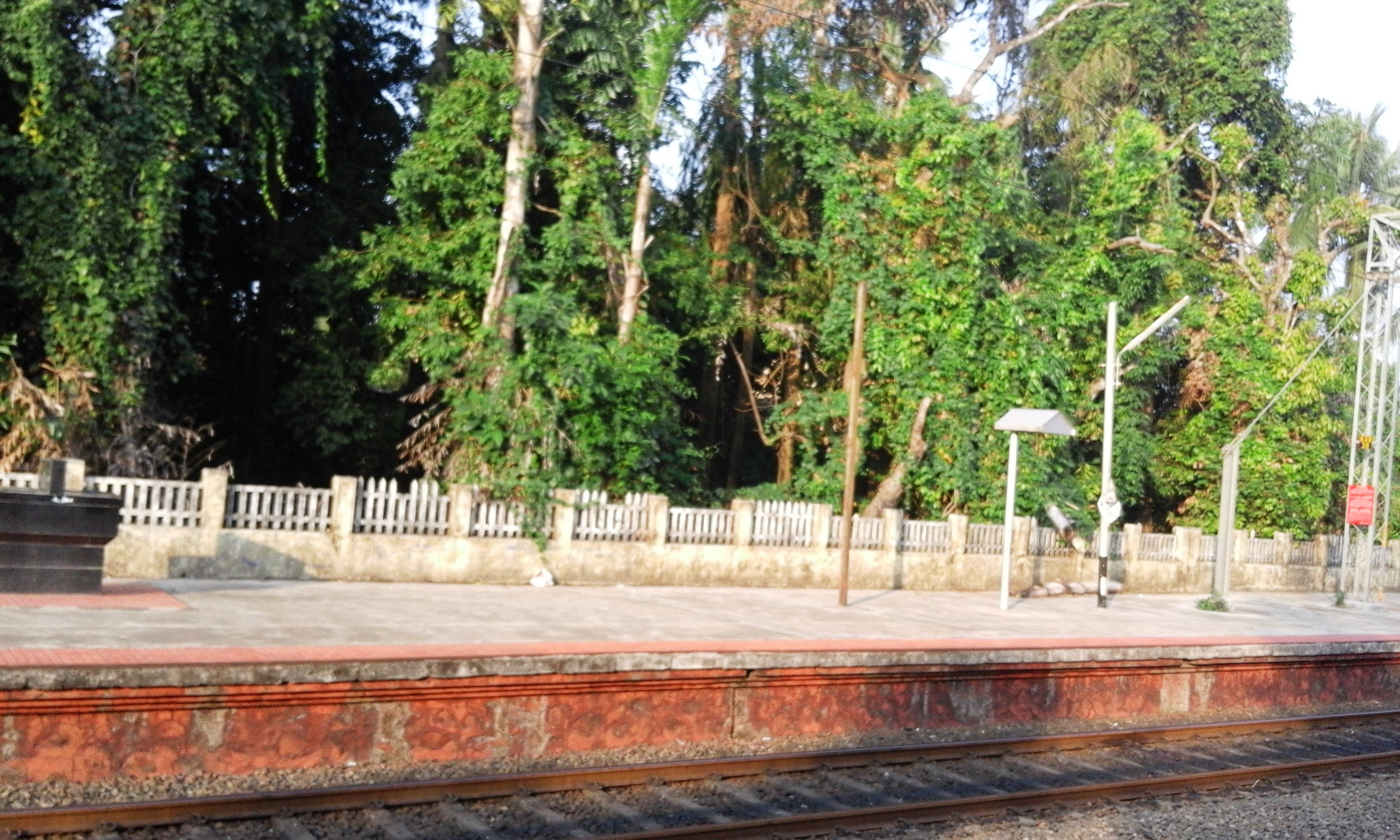 Parappanangadi, Malappuram, India.